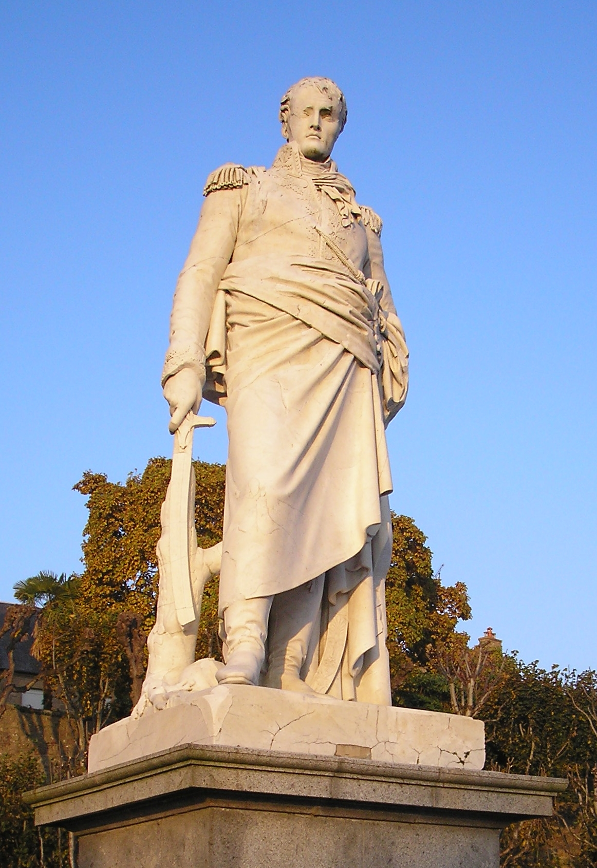 Avranches, Normandy, France. Sculpture of General Valhubert (by Cartellier)